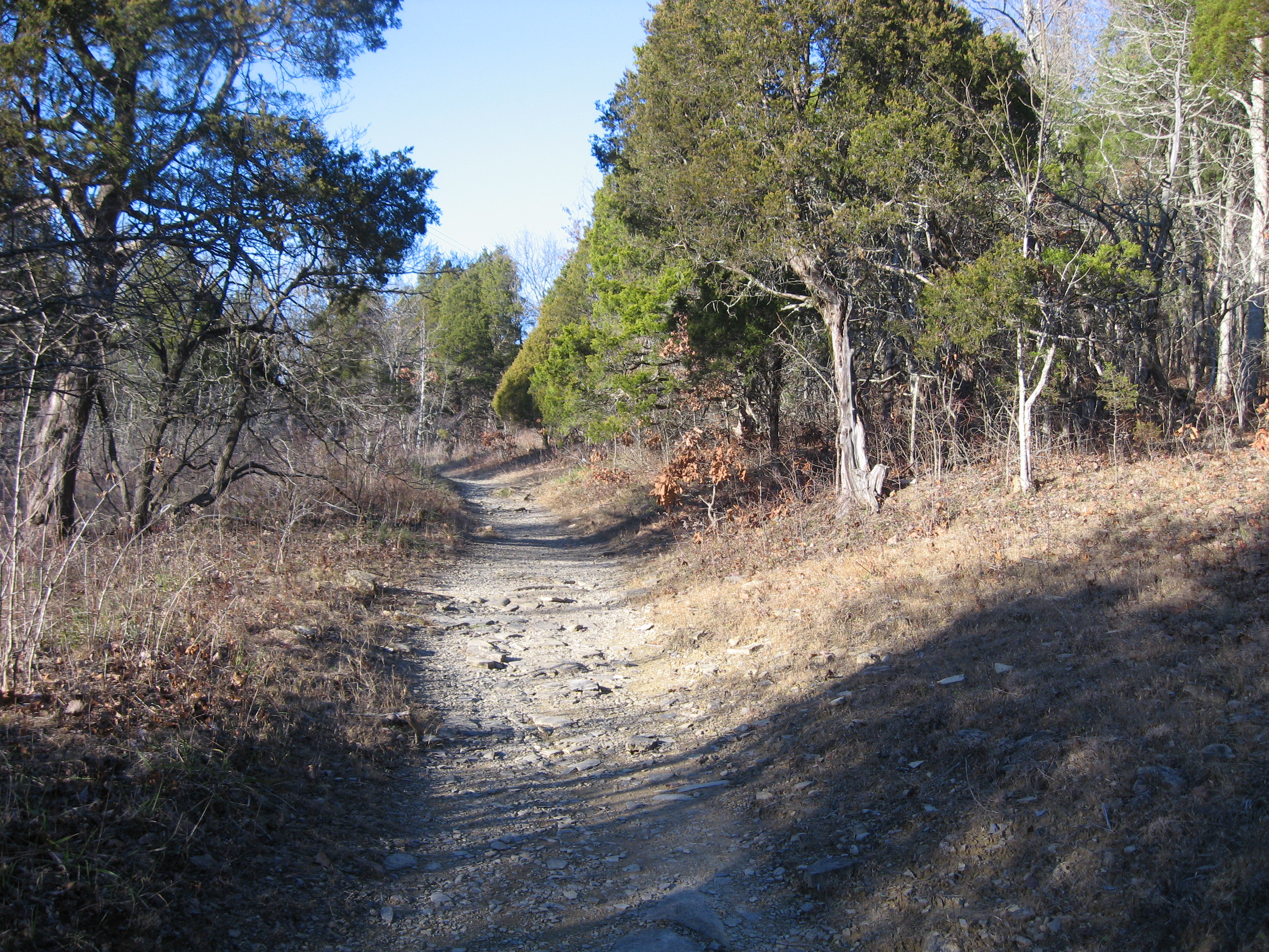 Trail along the Blue Licks cedar glade, Robertson County, Kentucky.